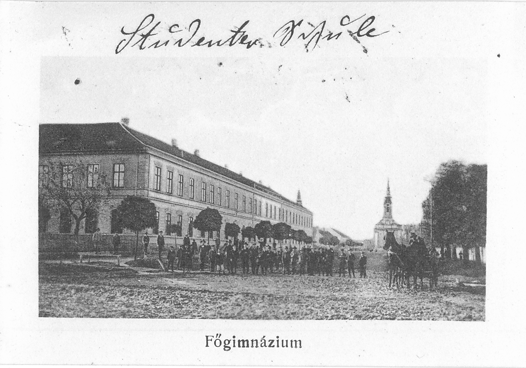 Gymnasium in Vrbas